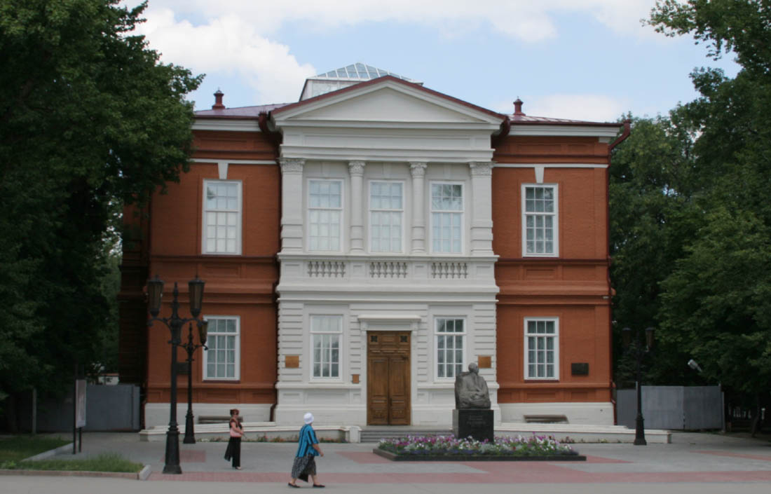 Radishchev Art Museum